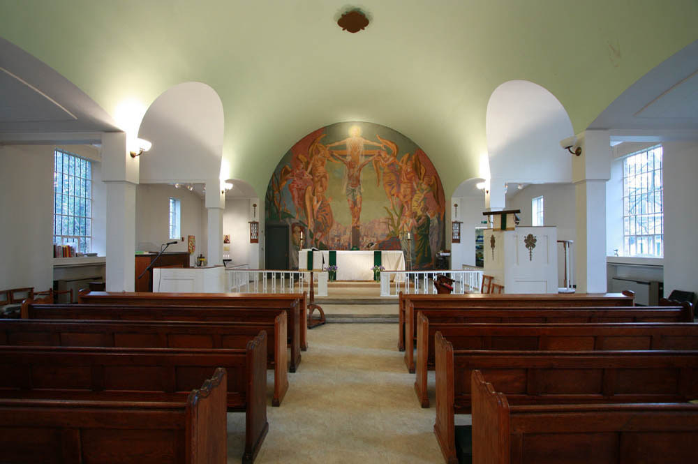 Holy Trinity, Rotherhithe Street, Rotherhithe - East end